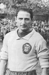 The Italian footballer Silvio Piola wearing the Pro Vercelli jersey (1929-1934)